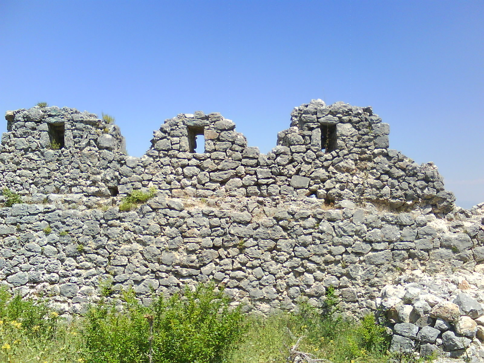 Fort of herceg-Stipan Kosača above Ljubuški }